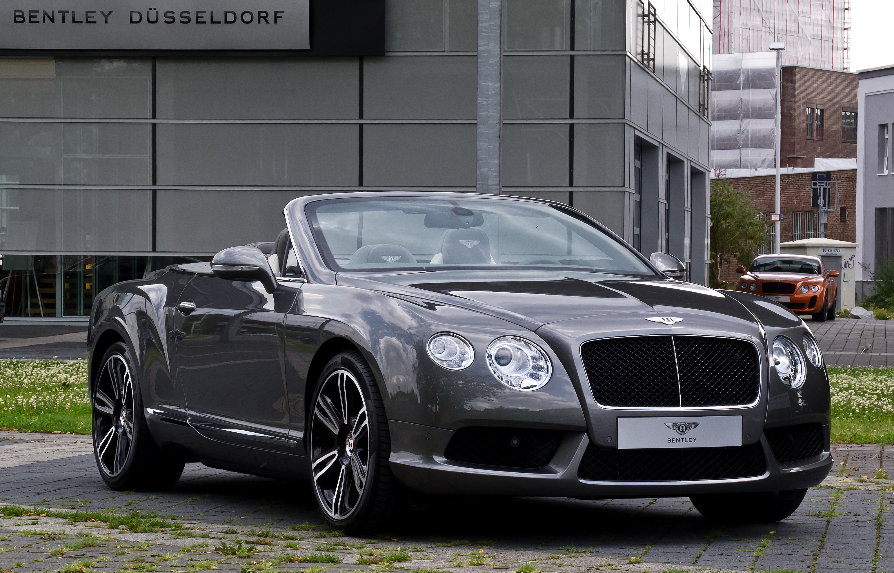 Bentley Continental GTC V8 (II)